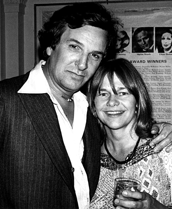 Candid photo of Danny Aiello and Estelle Parsons.